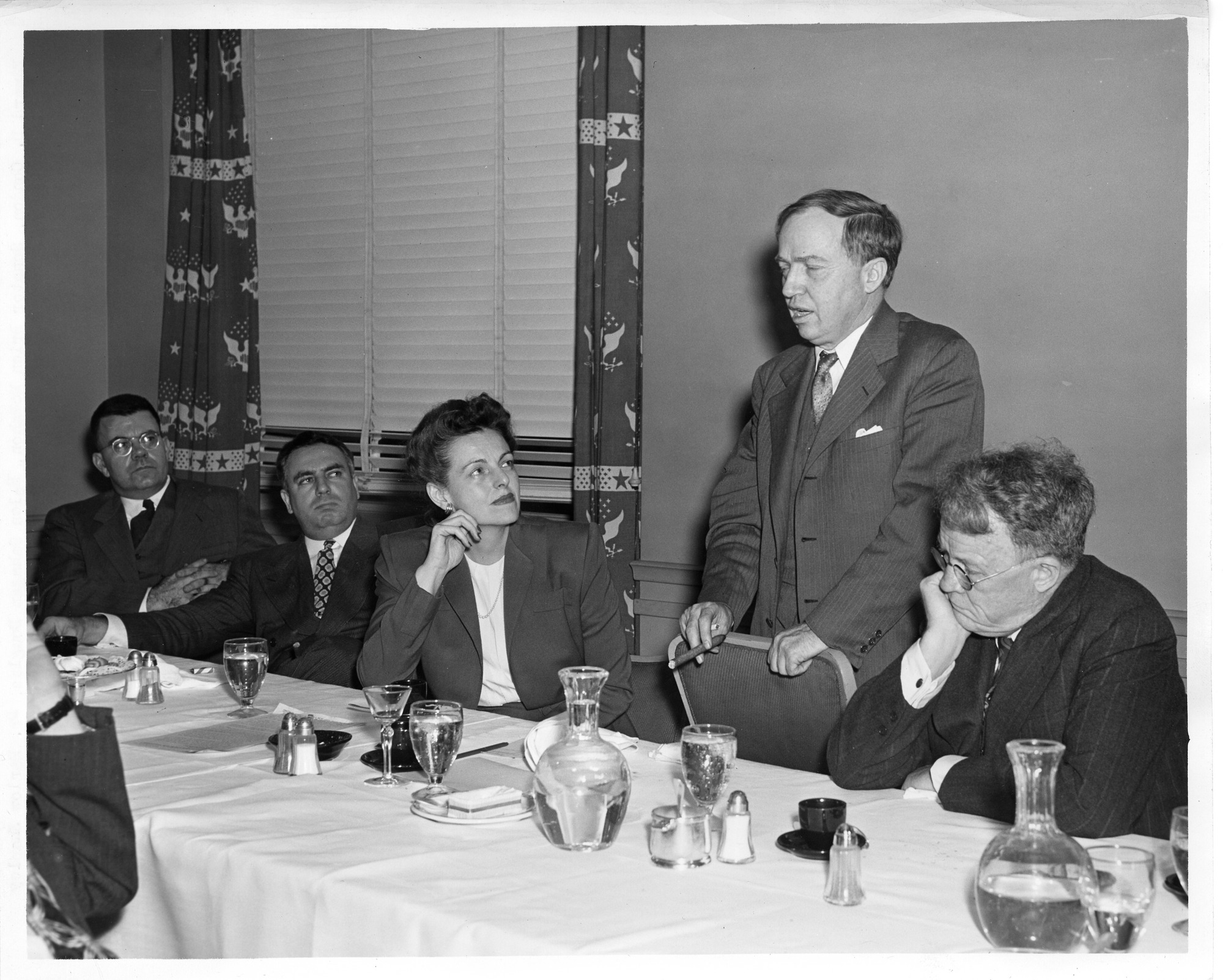 U.S. National Bureau of Standards director Edward Uhler Condon (1902-1974); U.S. Senator Brien McMahon (1903-1952); U.S. Representative Helen Gahagan Douglas (1900-1980); Harvard College Observatory astronomer Harlow Shapley (1885-1972); and William Hammatt Davis (1879-1964), former Chairman of the War Labor Board, at an event sponsored by Science Service. In late 1945, Senator McMahon was developing the Atomic Energy Act of 1945, which established the U.S. Atomic Energy Commission